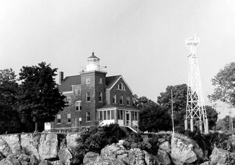 Undated photograph of South Bass Island Light showing replacement tower to right